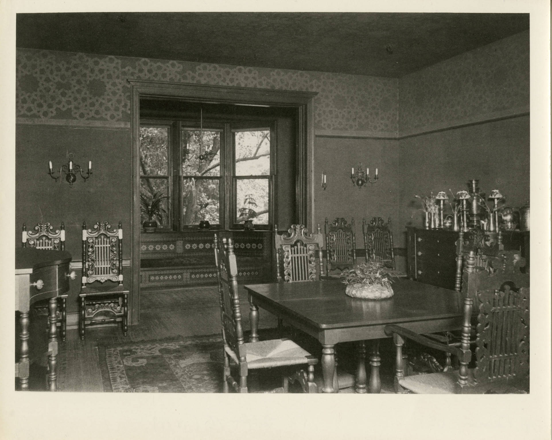 The Deanery, Interior View, The Dining Room, Bryn Mawr College